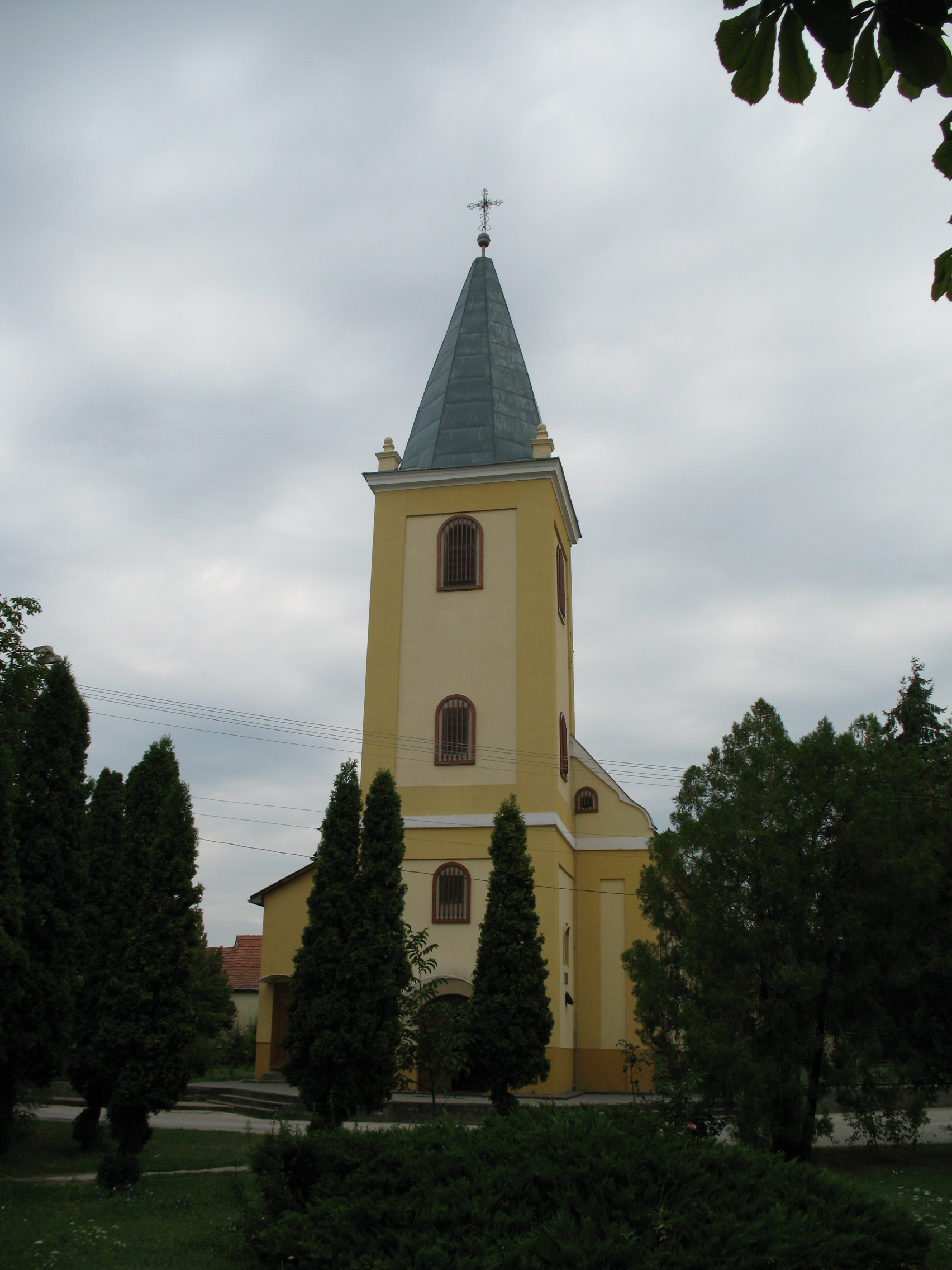 Church in Veľký Kýr